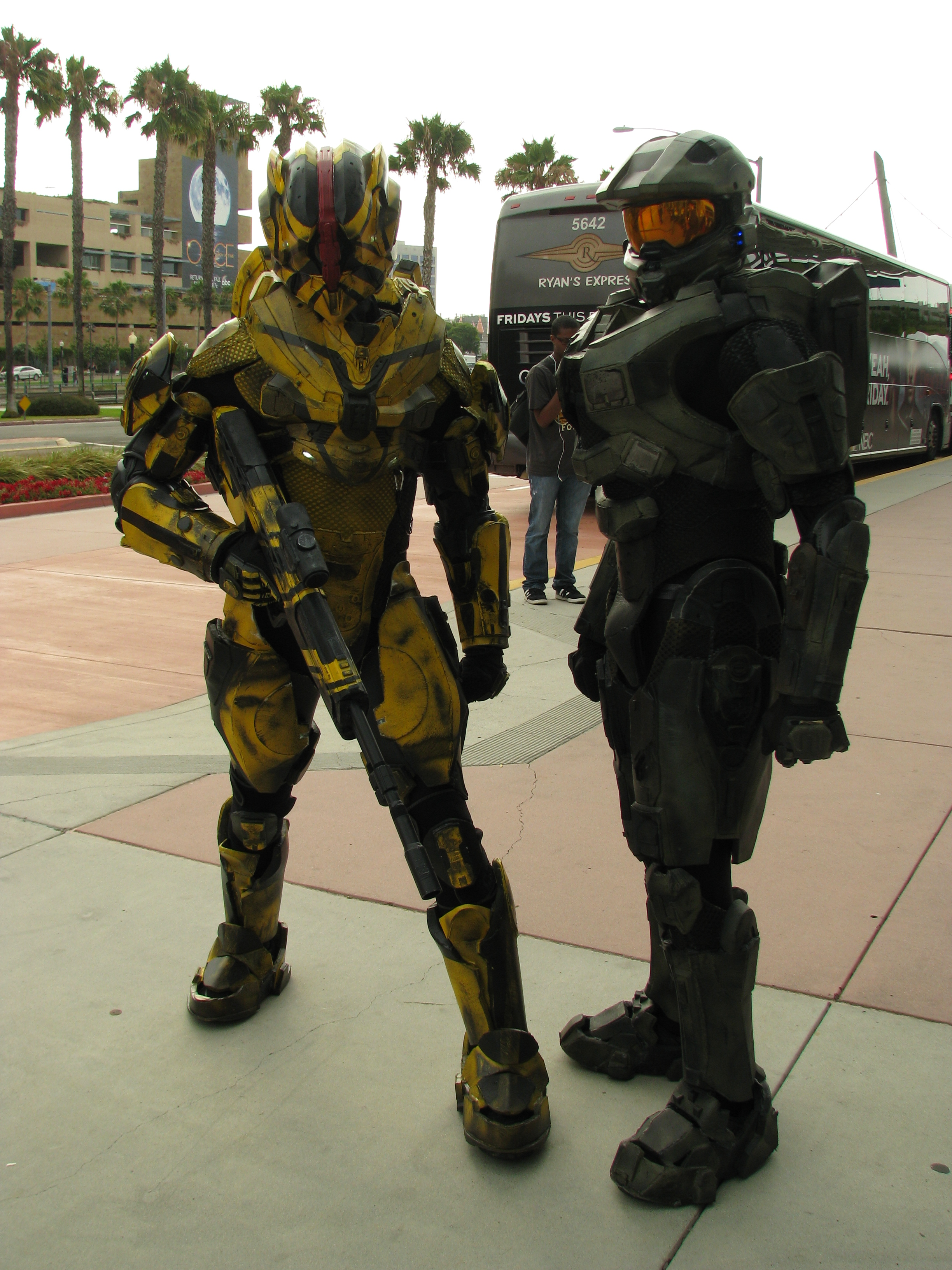 Cosplay of Master Chief [right] from the Halo series